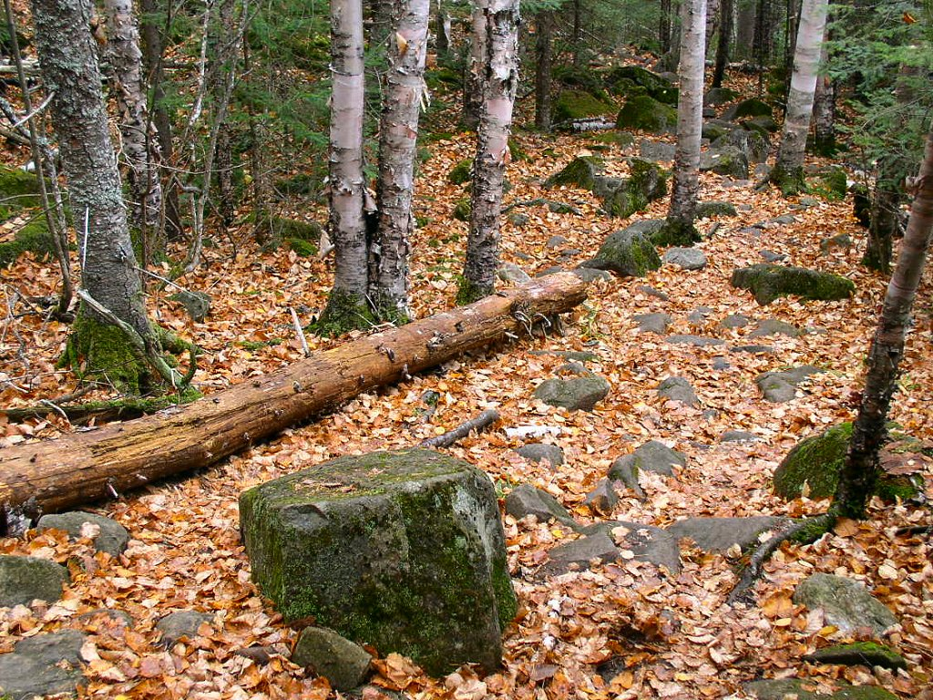 West Manitou River Trail, George H. Crosby-Manitou State Park, Minnesota, USA